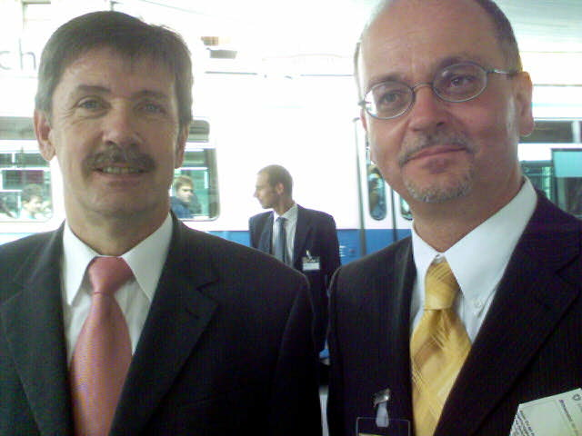 Swiss politicians Adalbert Durrer (left) and Kuno Hämisegger in 2005